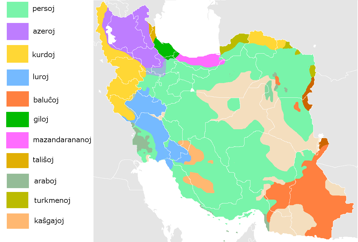 distribution of the languages and ethnic groups of Iran, description in Esperanto